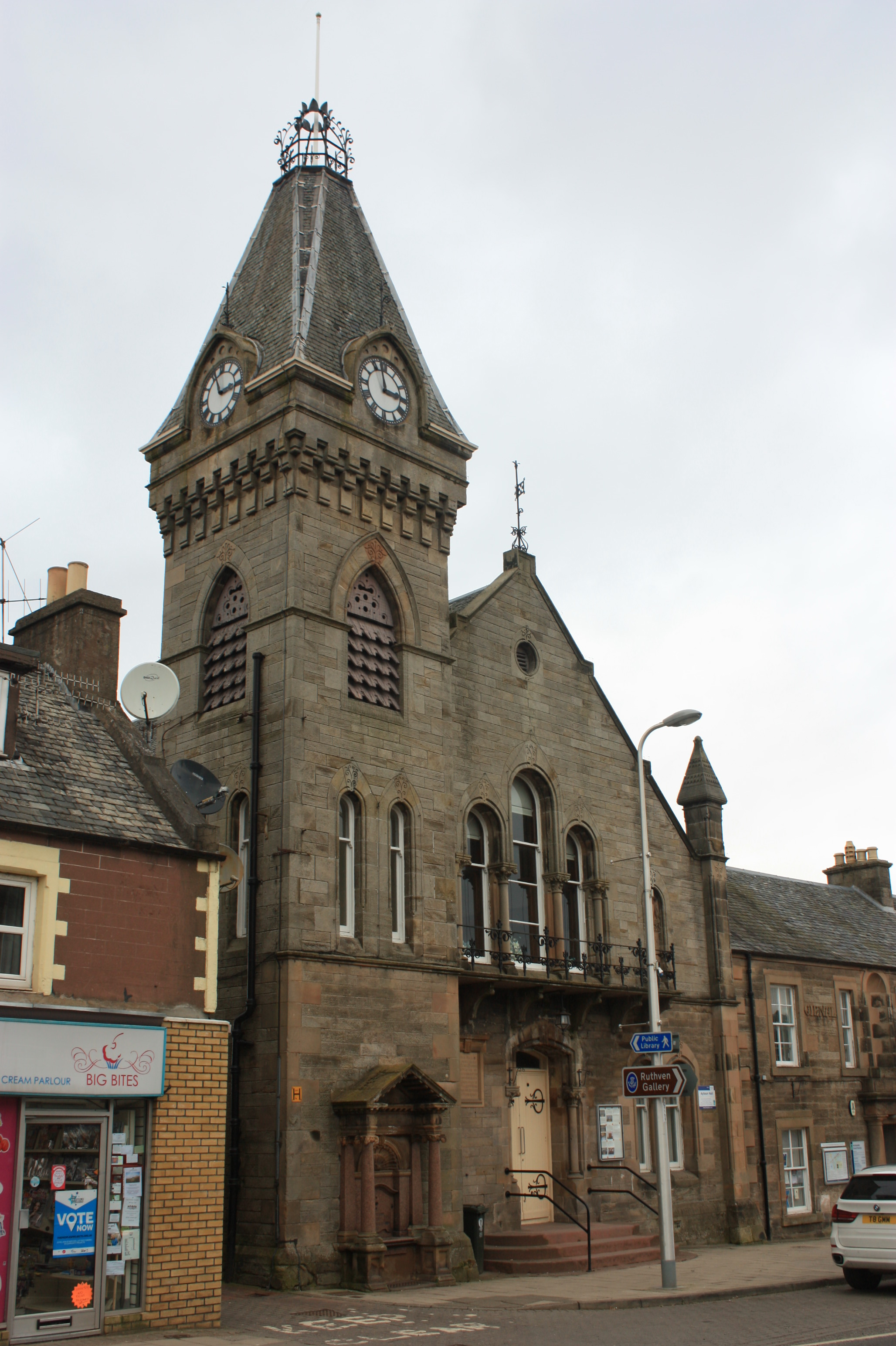 Auchterarder Aytoun Hall by David Cousin